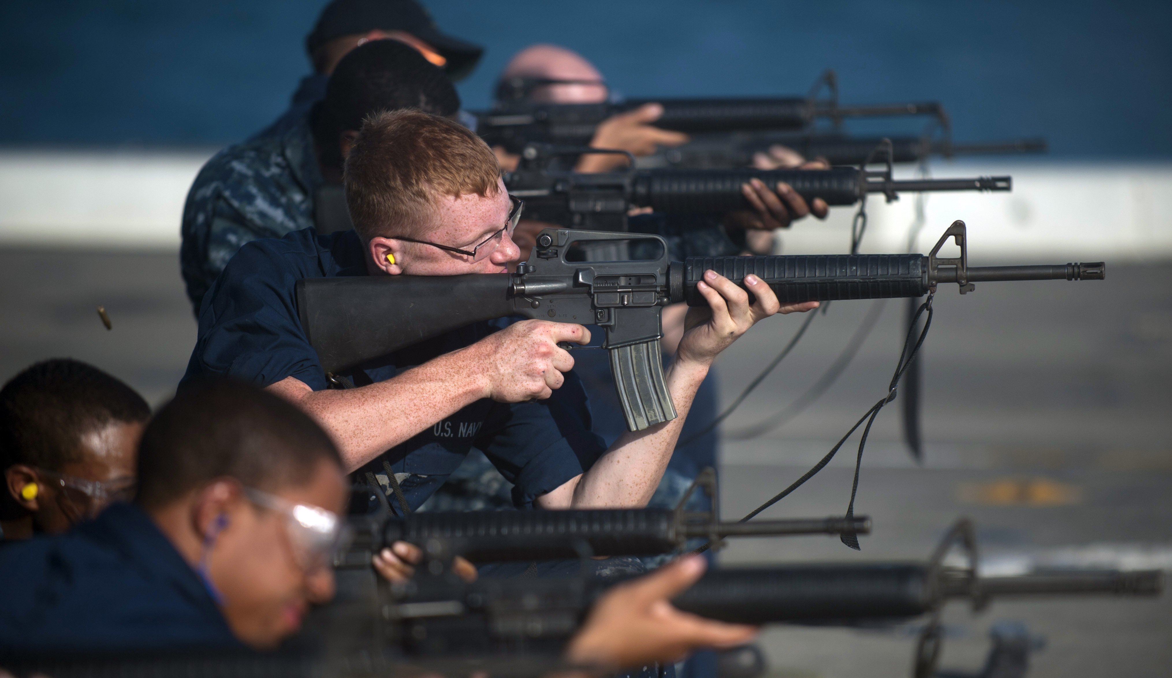 PHILIPPINE SEA (Dec. 10, 2011) Sailors fire at their targets with M-16 service rifles during small arms qualifications aboard the amphibious transport dock ship USS New Orleans (LPD 18). New Orleans and embarked Marines assigned to the 11th Marine Expeditionary Unit (11th MEU) are operating in the U.S. 7th Fleet area of responsibility as part of the Makin Island Amphibious Ready Group. (U.S. Navy photo by Mass Communication Specialist 2nd Class Dominique Pineiro/Released)